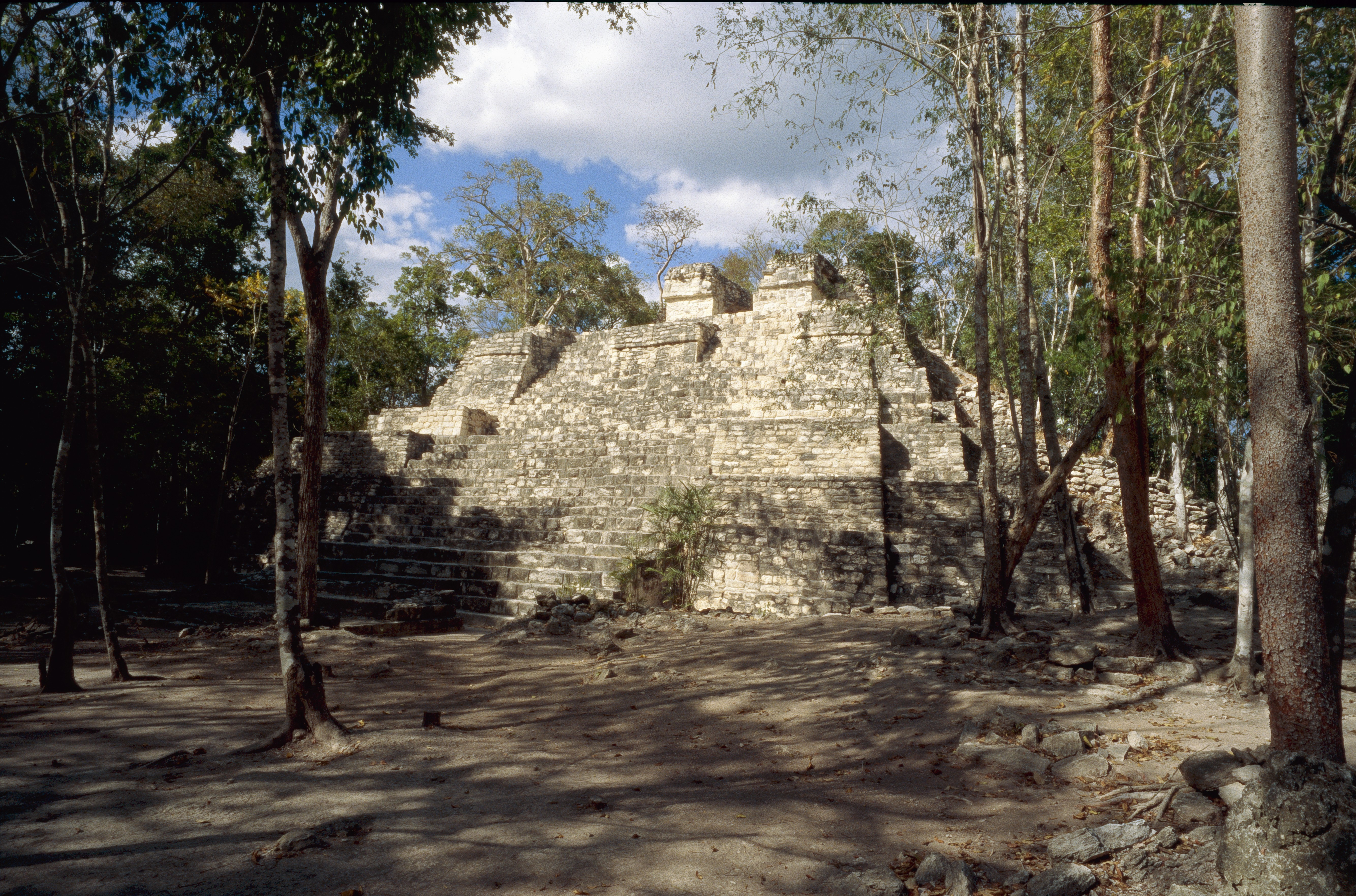 Balamku, Campeche, Mexico: building of the stucco frieze